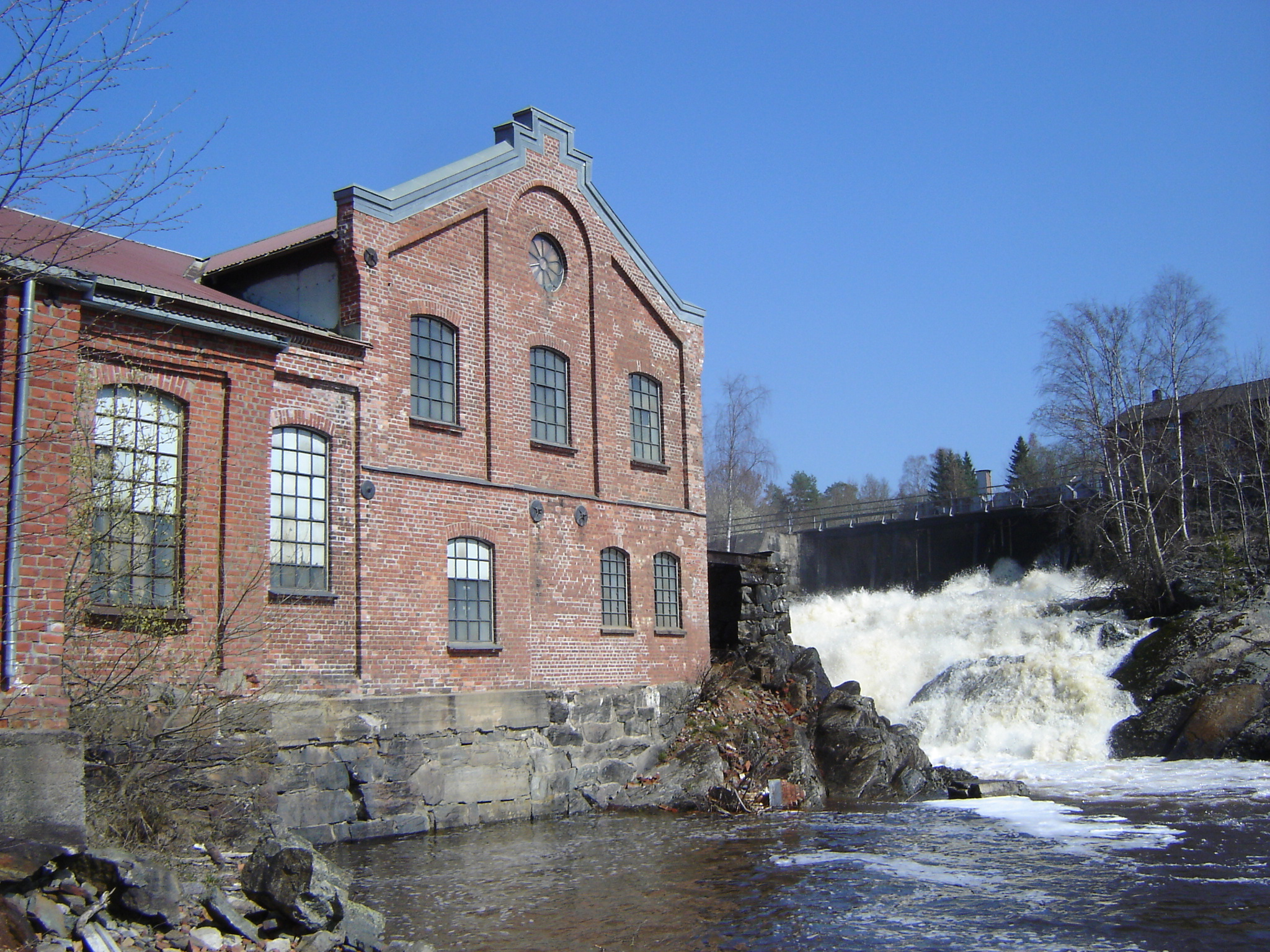 Former pulp mill in Ørje, Østfold, Norway.